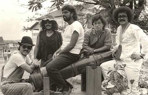 Sweet September